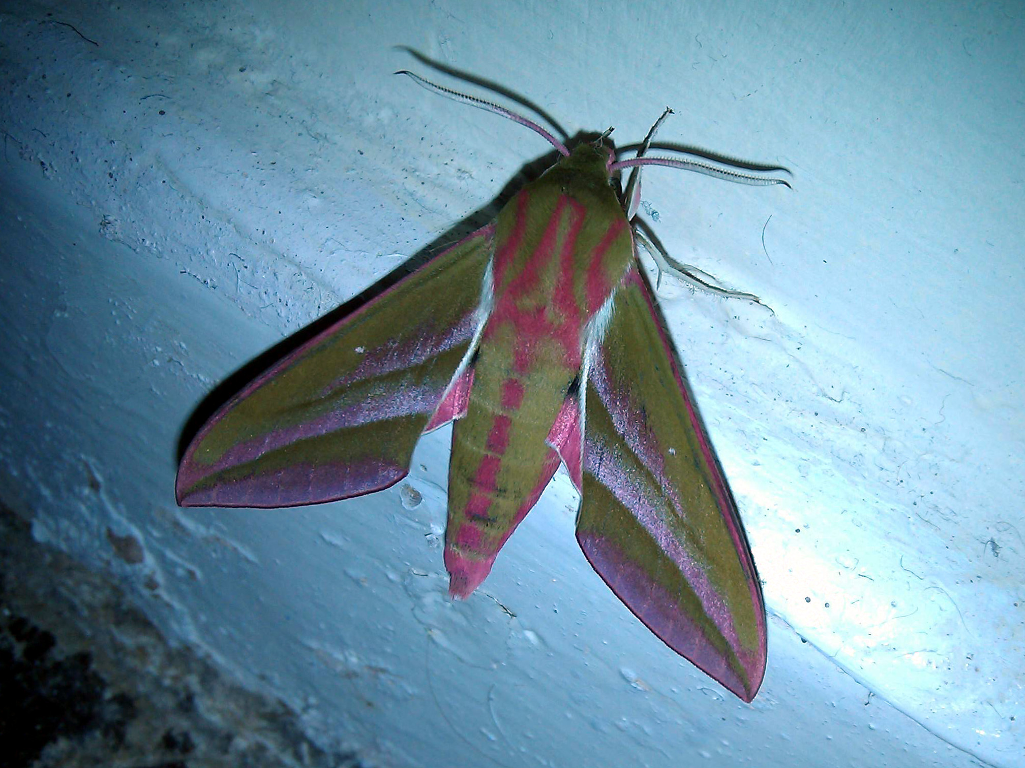 Elephant hawk-moth (Deilephila elpenor) on skirting board. Cardiff, Wales, UK, July 2013.